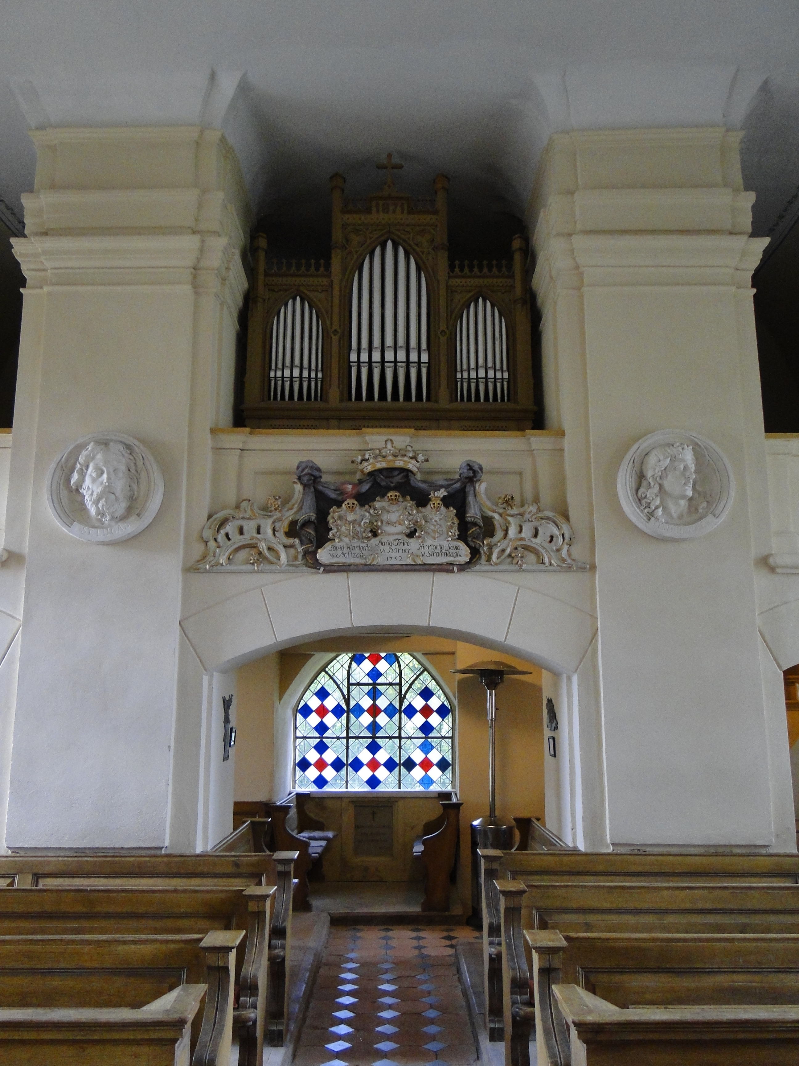 Church in Bülow, district Ludwigslust-Parchim, Mecklenburg-Vorpommern, Germany